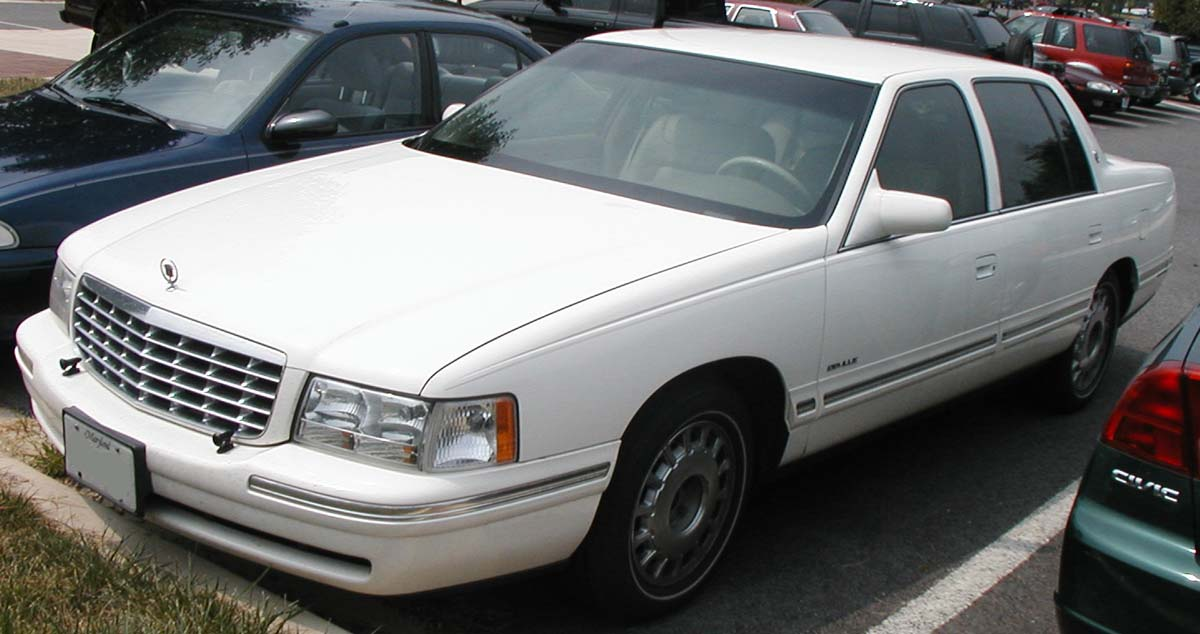 1995-1999 Cadillac Deville photographed in USA.